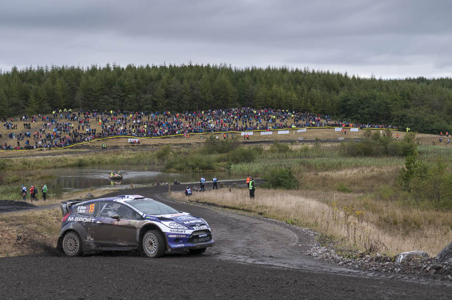 Wales Rally Great Britain 2012 Ford Fiesta RS WRC,Likes Land Rover at Walters Arena 1,M-Sport Ford WRT,M-Sport Ford World Rally Team,Matthew Wilson,Motorsport,Rally,Rallye,SS16,Scott Martin,WP16,WRC,Wales Rally GB